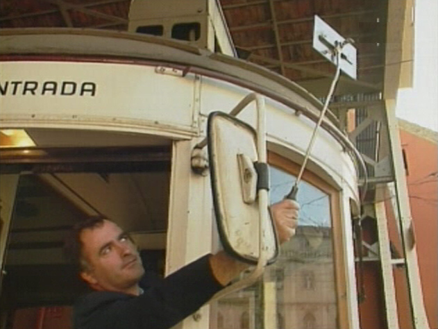 The operator of an old Lisbon tram preparing to leave the carhouse (depot) appears to be using a handheld mirror to view the car's roof-mounted destination sign (rollsign), as he sets the sign for his route.